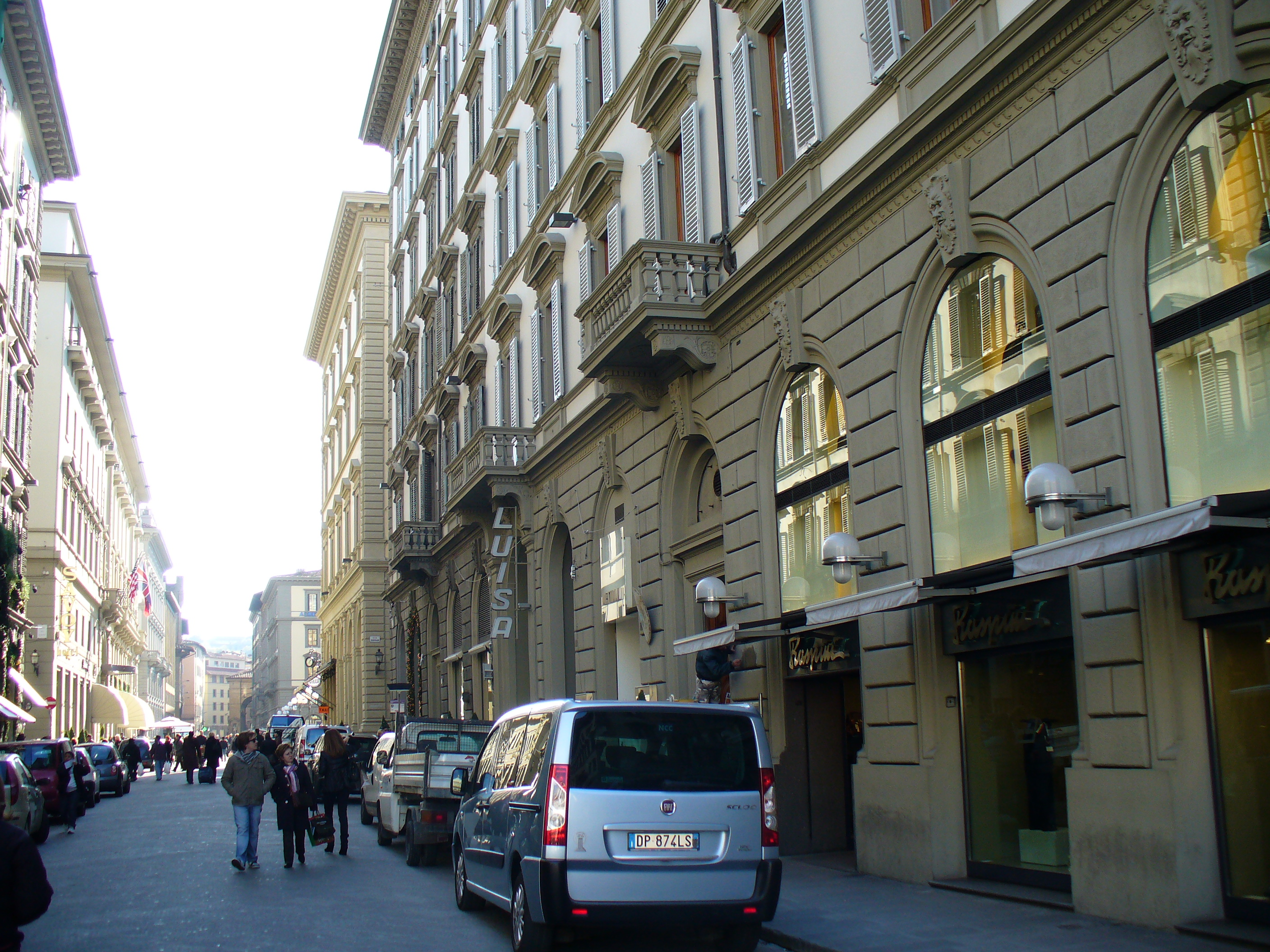 Via Roma (Florence)